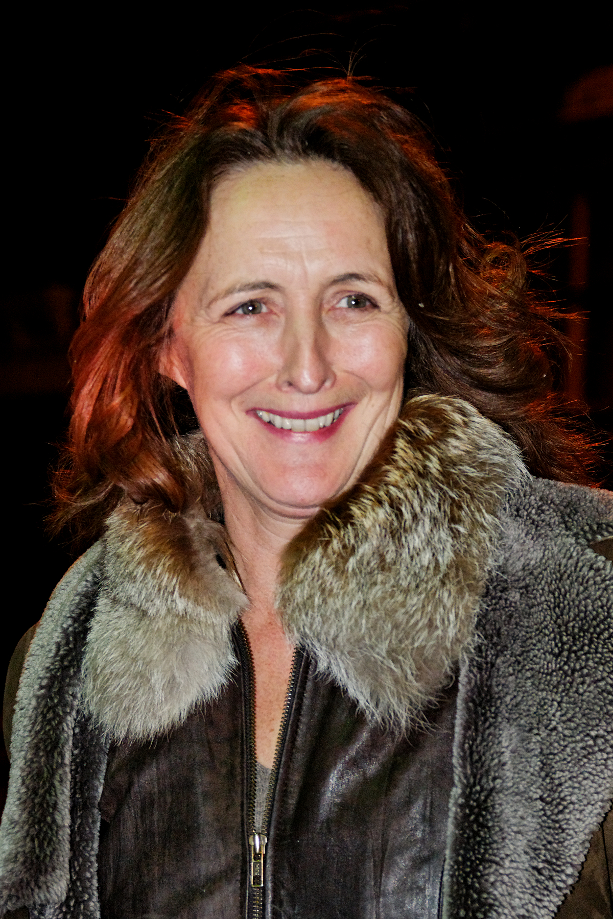 Fiona Shaw posing for pictures at the stage door after a performance of Ibsen's John Gabriel Borkman at the Brooklyn Academy of Music.